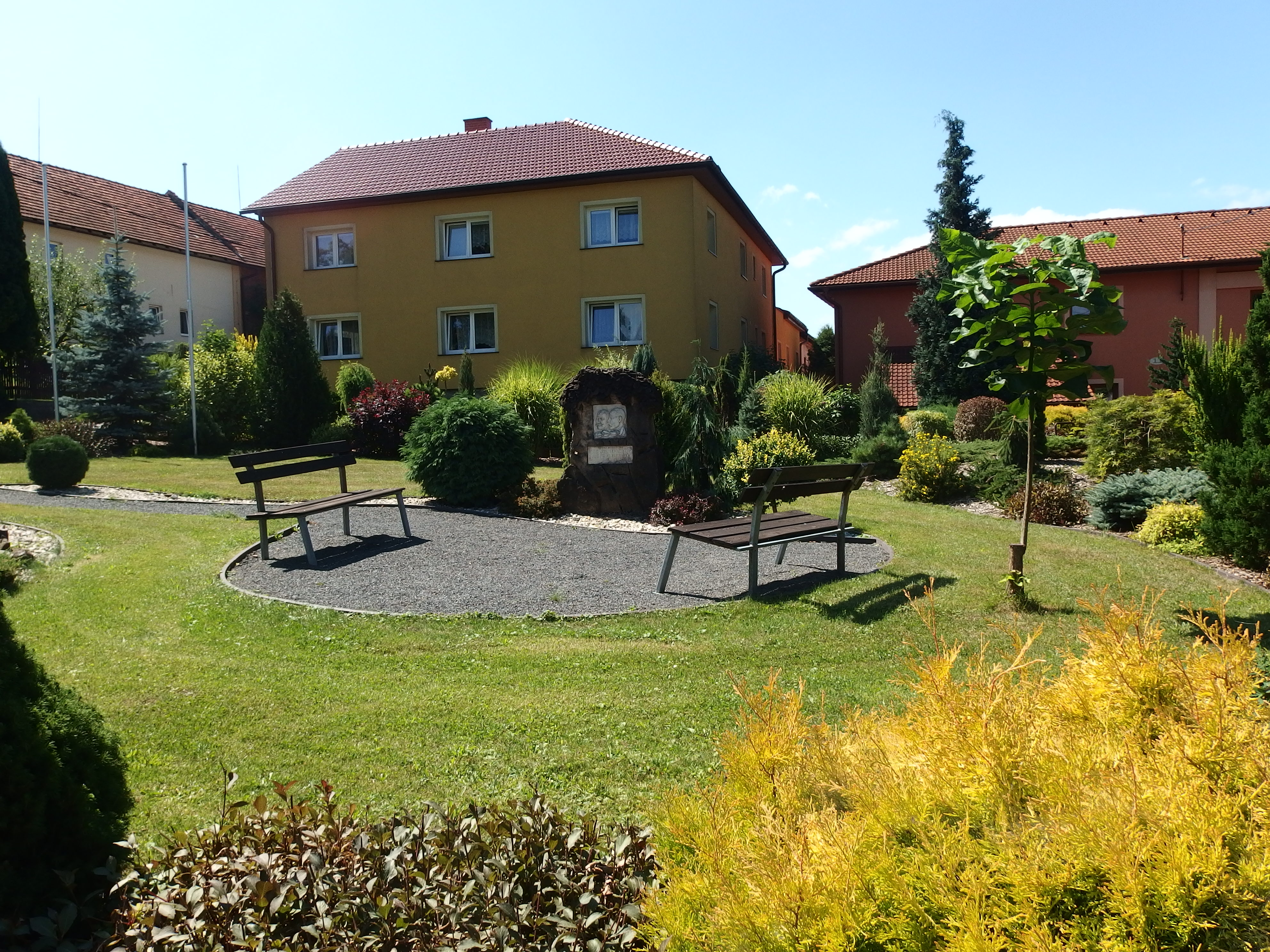 Starý Jičín, Nový Jičín District, Czech Republic, part Janovice.